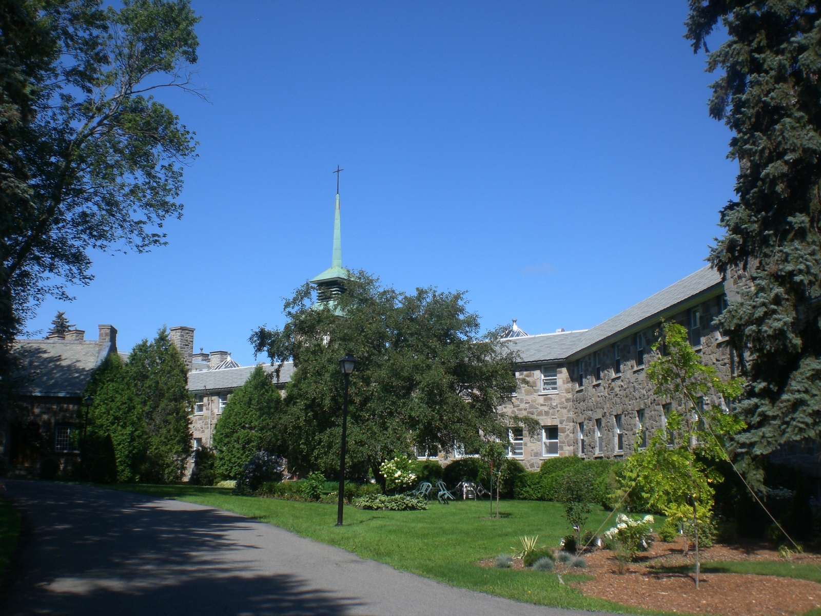 View of the front of Villa Saint-Martin Jesuit retreat and spirituality centre in Montreal, Quebec, Canada.